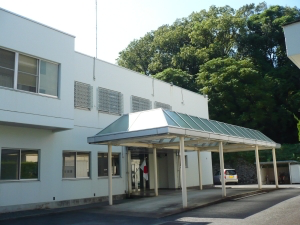 Appearance of Nagasaki juvenile discrimination center.